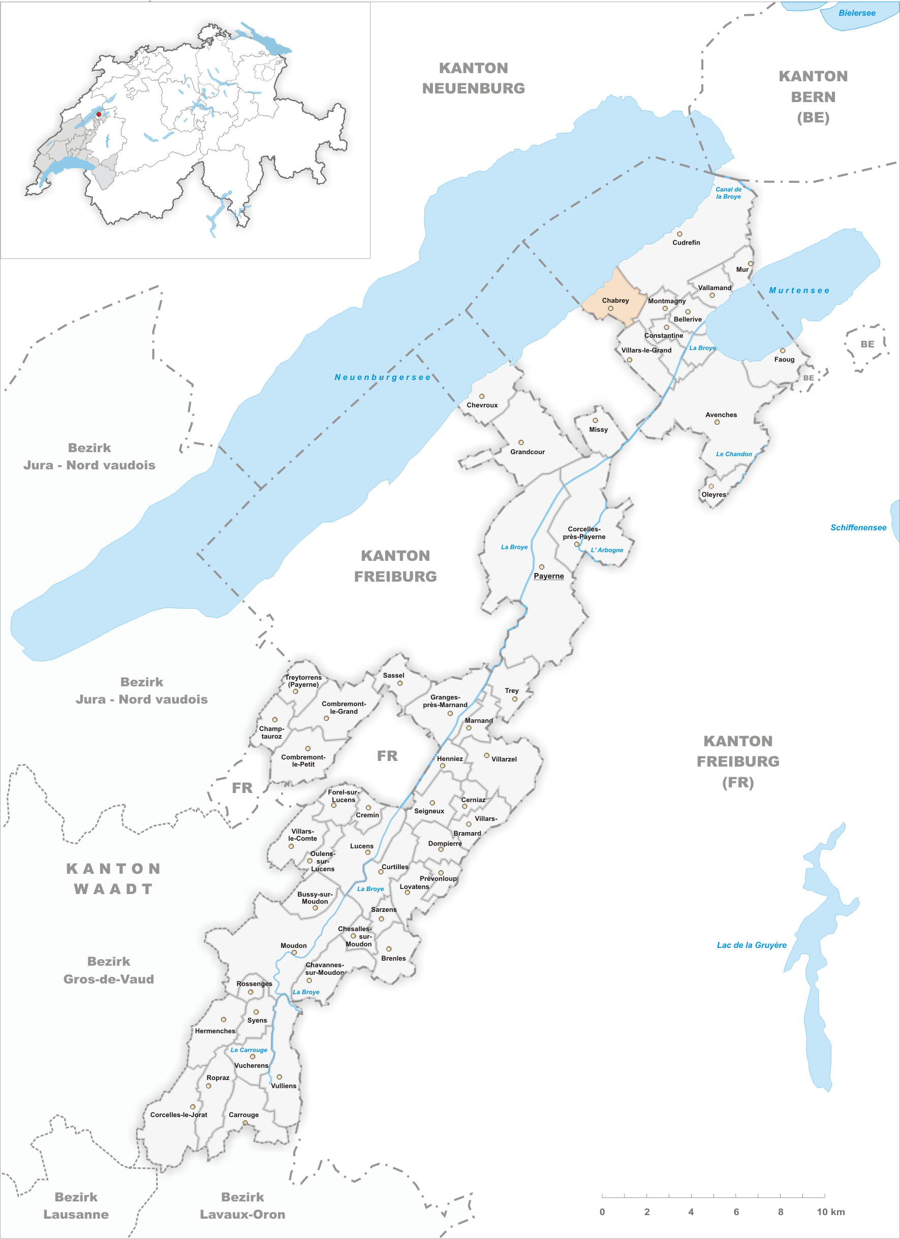 Municipality Chabrey